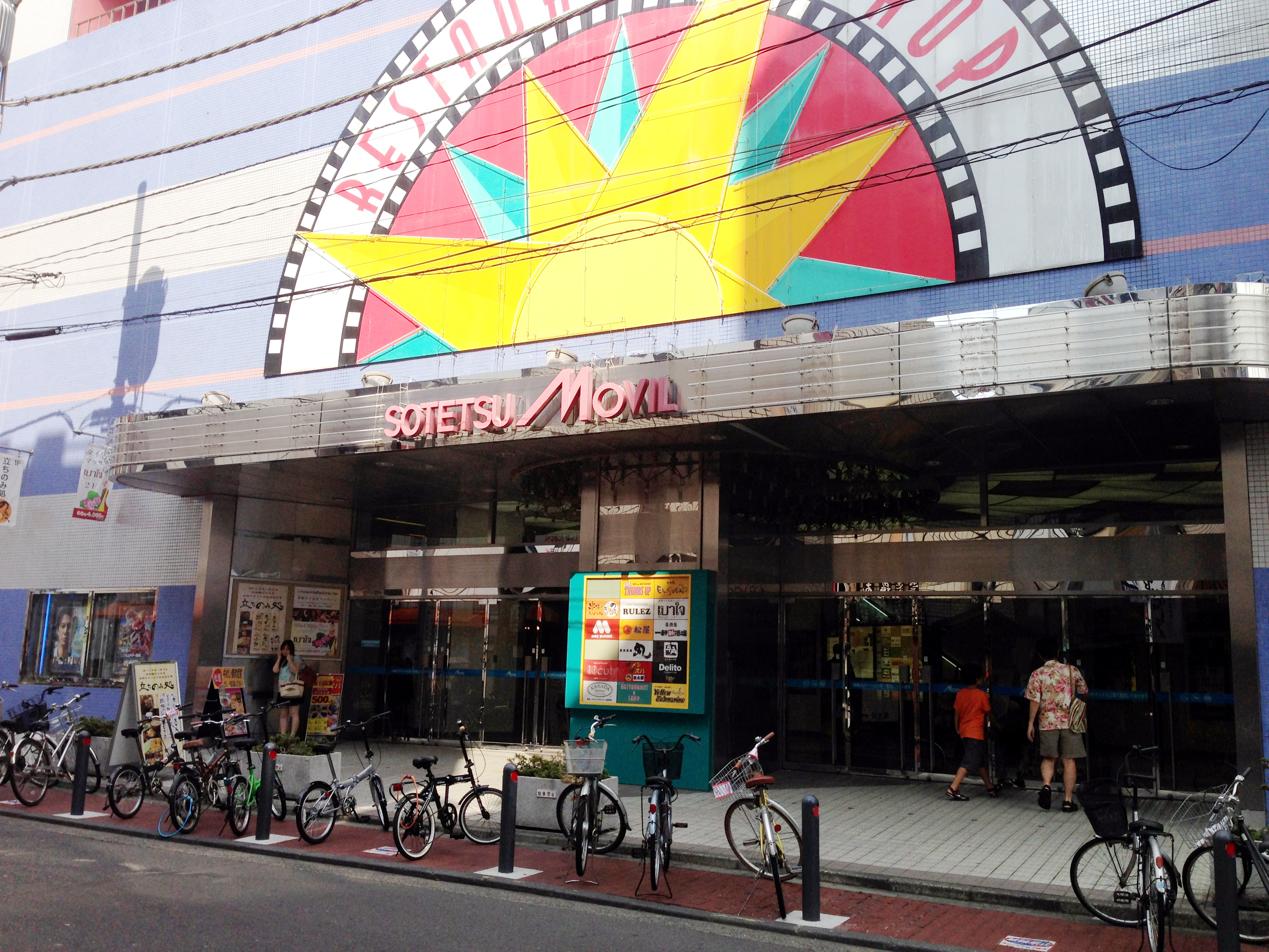 Movie Theater "Sotetsu Movil"at front side in Yokohama, Japan.